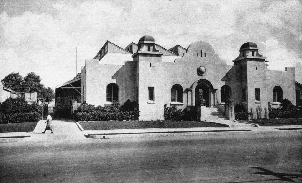 A postcard of the Anaheim Packing House, circa 1936